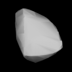 3D convex shape model of 3325 TARDIS, computed using light curve inversion techniques. J. Hanuš, J. Ďurech, M. Brož, B. D. Warner (June 2011). "A study of asteroid pole-latitude distribution based on an extended set of shape models derived by the lightcurve inversion method". Astronomy and Astrophysics 530: A134. ISSN 0004-6361. arXiv